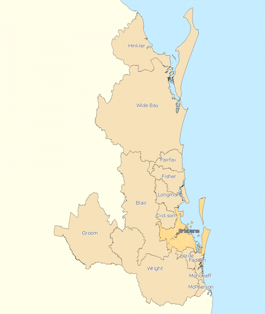 Incorporates or developed using Administrative Boundaries ©PSMA Australia Limited licensed by the Commonwealth of Australia under Creative Commons Attribution 4.0 International licence (CC BY 4.0). Derived from State and Territory Boundaries from the Australian Bureau of Statistics under Creative Commons Attribution 2.5 Australia license (CC BY 2.5 AU)